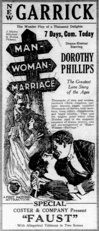 Newspaper advertisement for the American film Man-Woman-Marriage (1921) with Dorothy Phillips, on page 5 of the February 11, 1922 Duluth Herald.